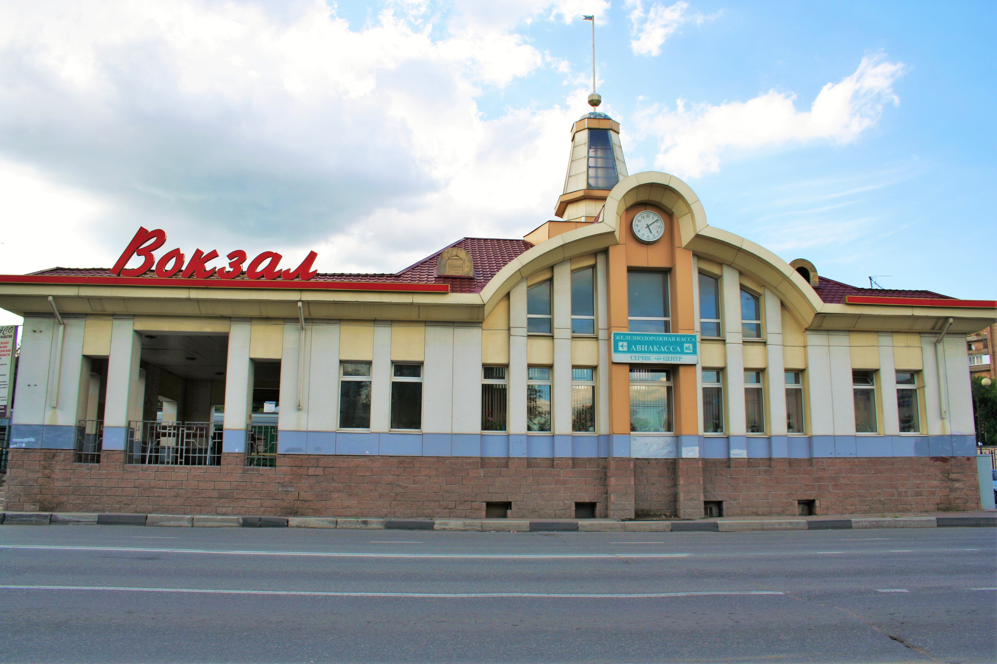 Train station in Balashikha, Moscow Oblast, Russia.